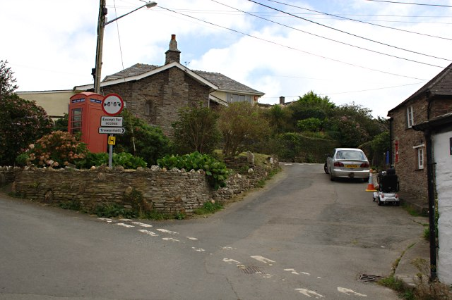 Trenale Trenale consists of just a few houses scattered around a road junction.